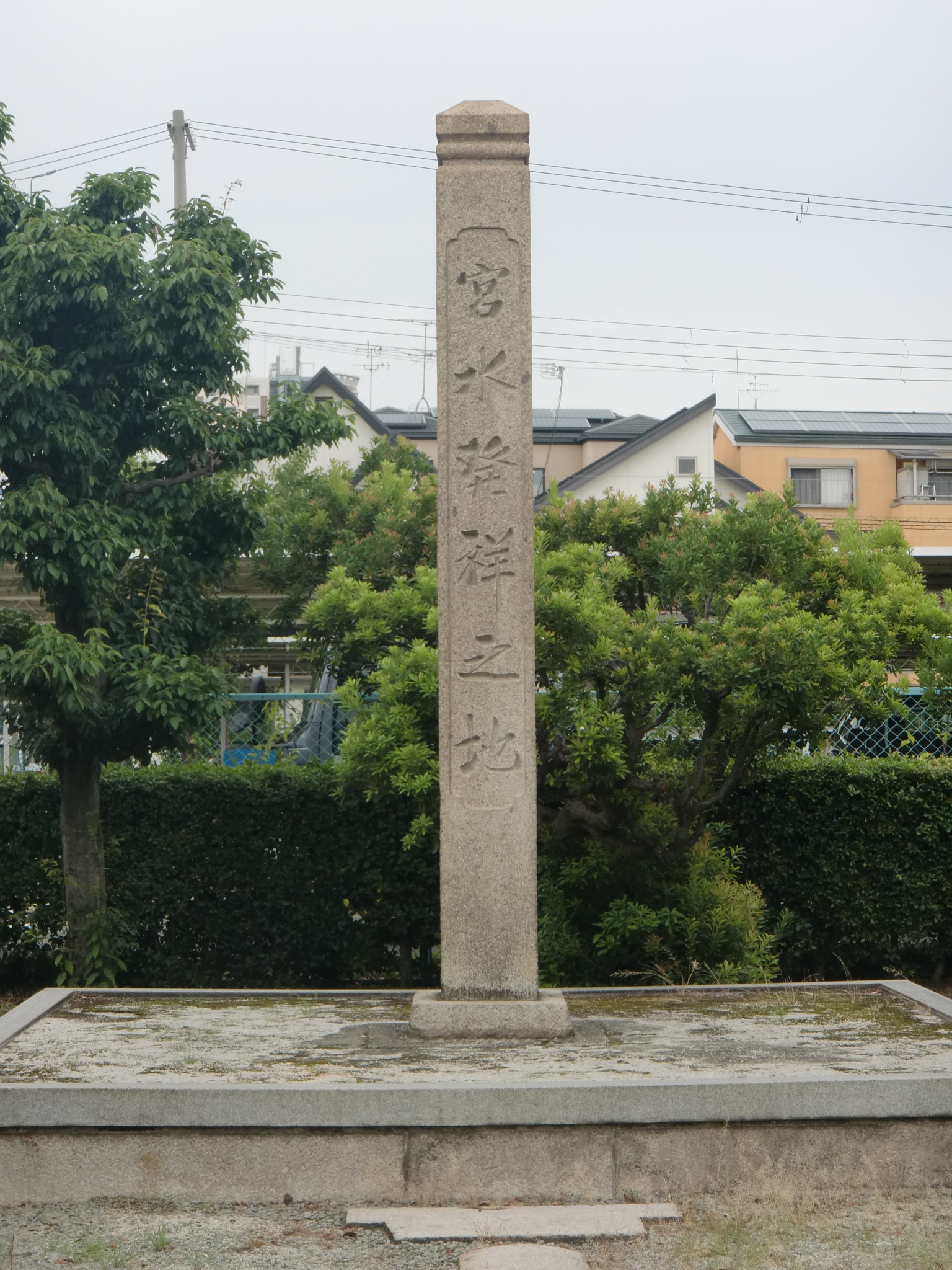 Miyamizu is special water well for Japanese wine "Sake" at Nisinomiya city, Hyogo prf. Japan